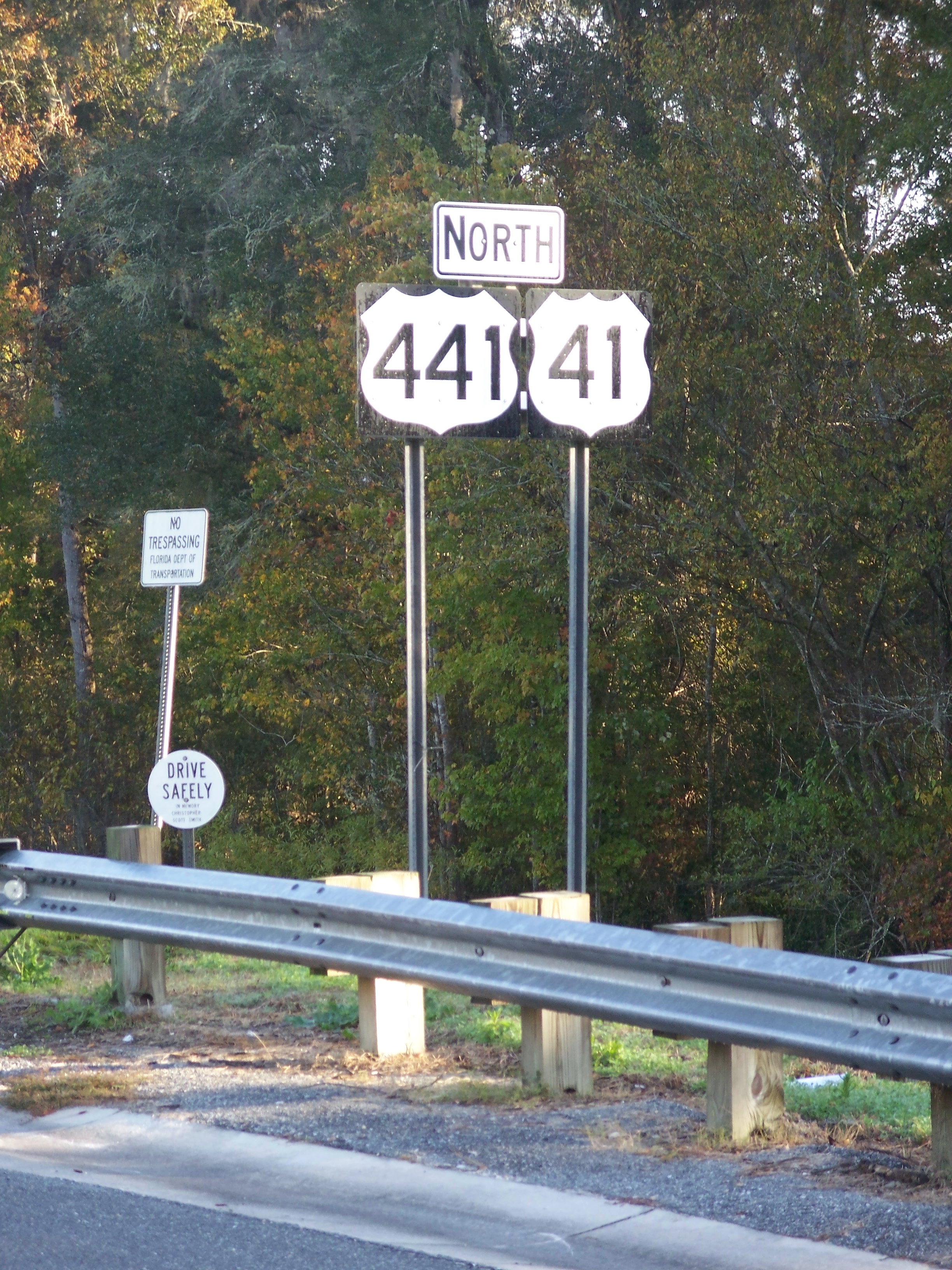 High Springs, Florida: US 441/US 41 signs by the bridge over the Santa Fe River. Looking north into Columbia County.